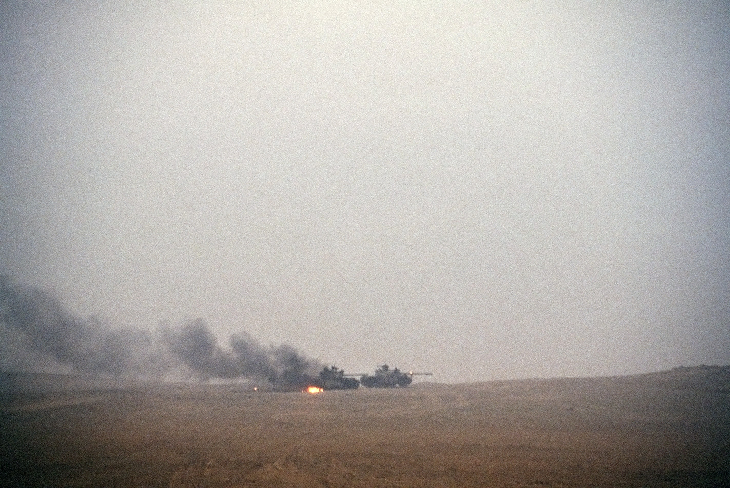 The desert lights up with burning Iraqi Type 69 tanks after an attack by the 1st United Kingdom Armored Division during Operation Desert Storm.